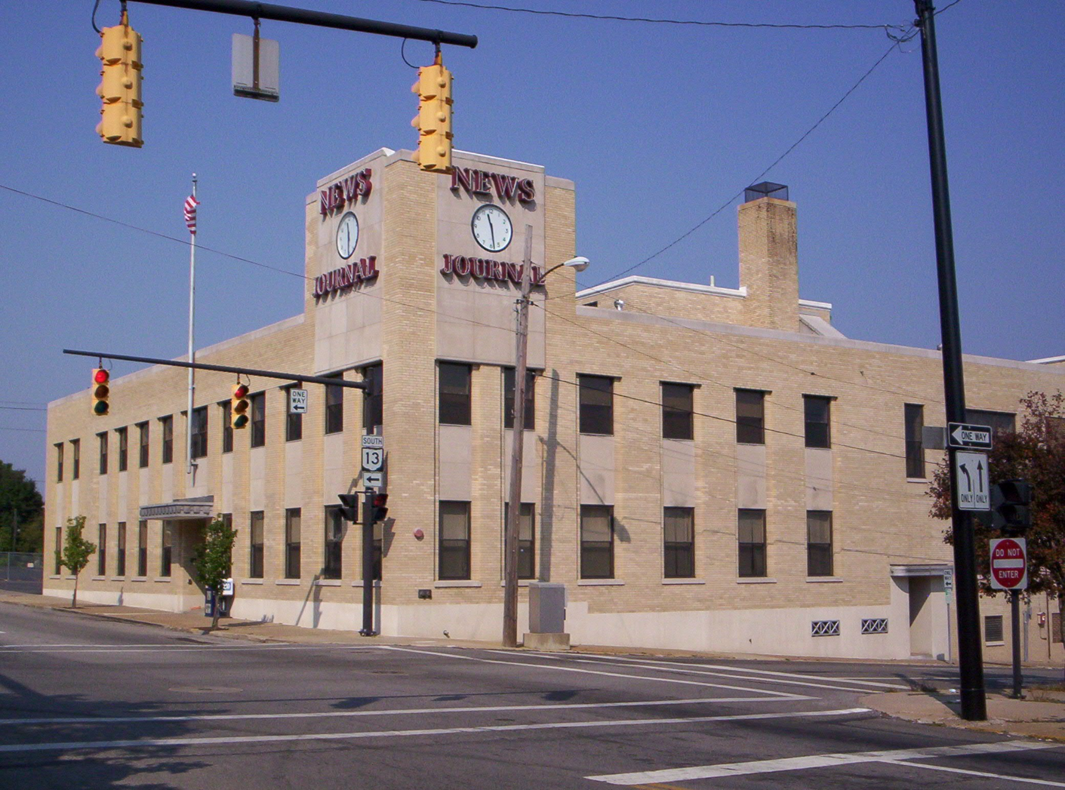 A view of the Mansfield News Journal building on the northwest corner of West 4th Street and North Mulberry Street in downtown Mansfield, Ohio.